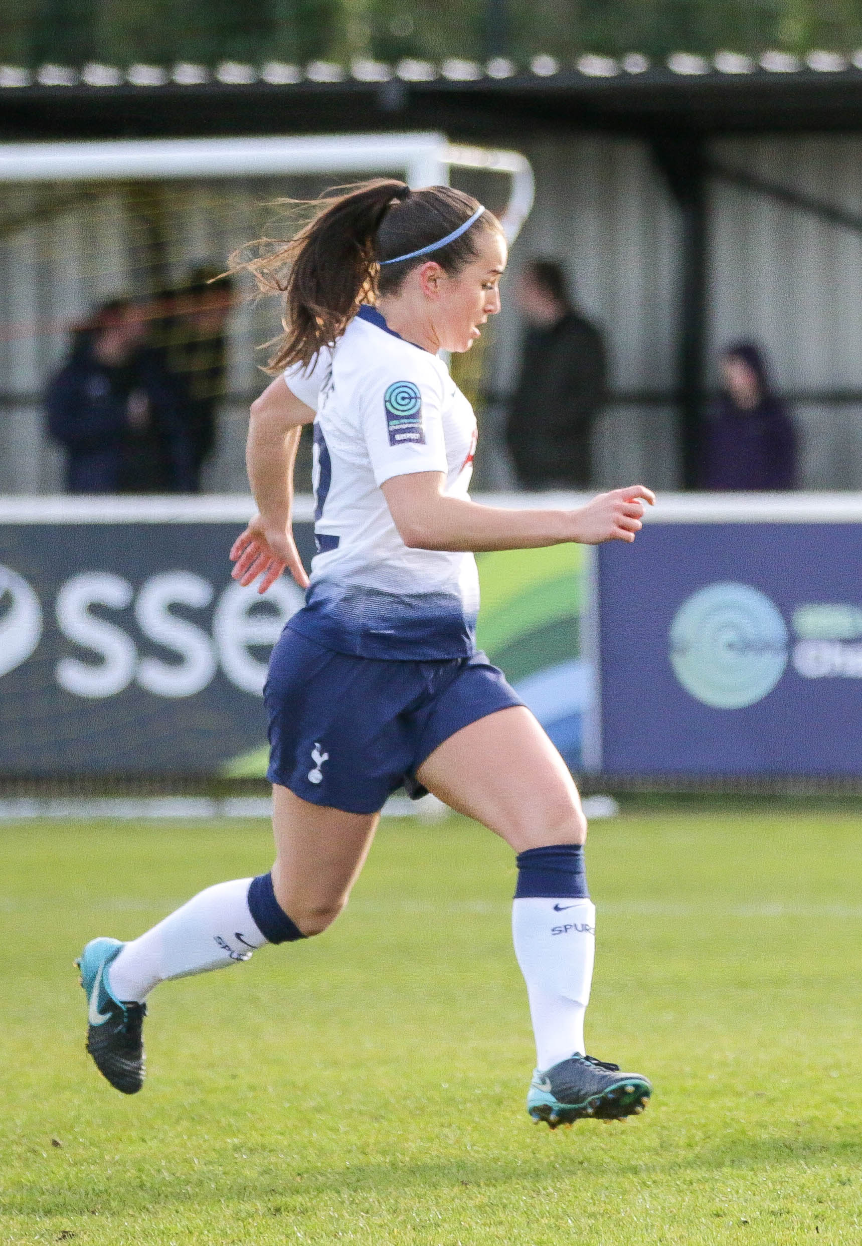 Megan Wynne of Tottenham challenges Avilla Bergin of Lewes